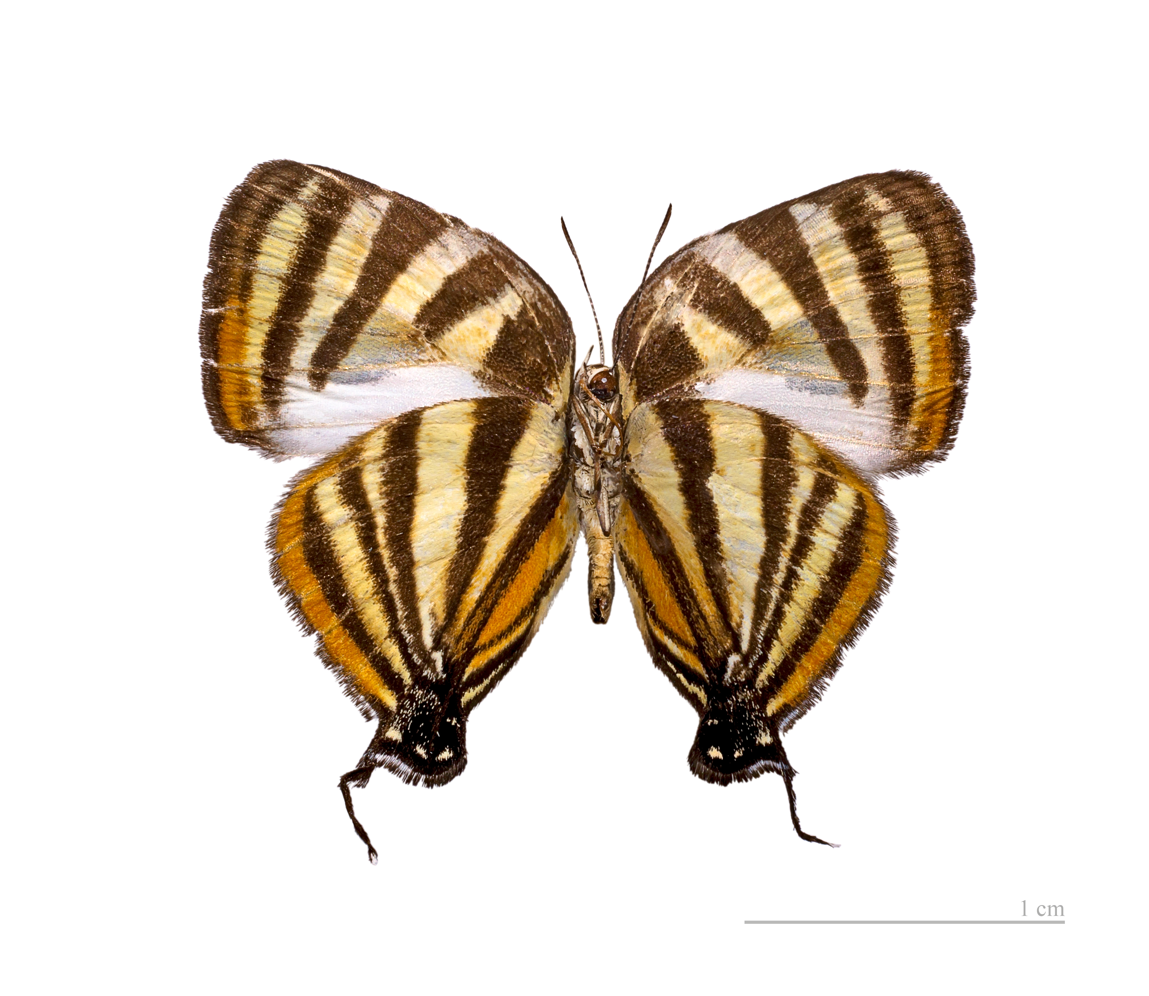 ♂ - △ Ventral side Locality : Lac Rorota, Montjoly, French Guiana.